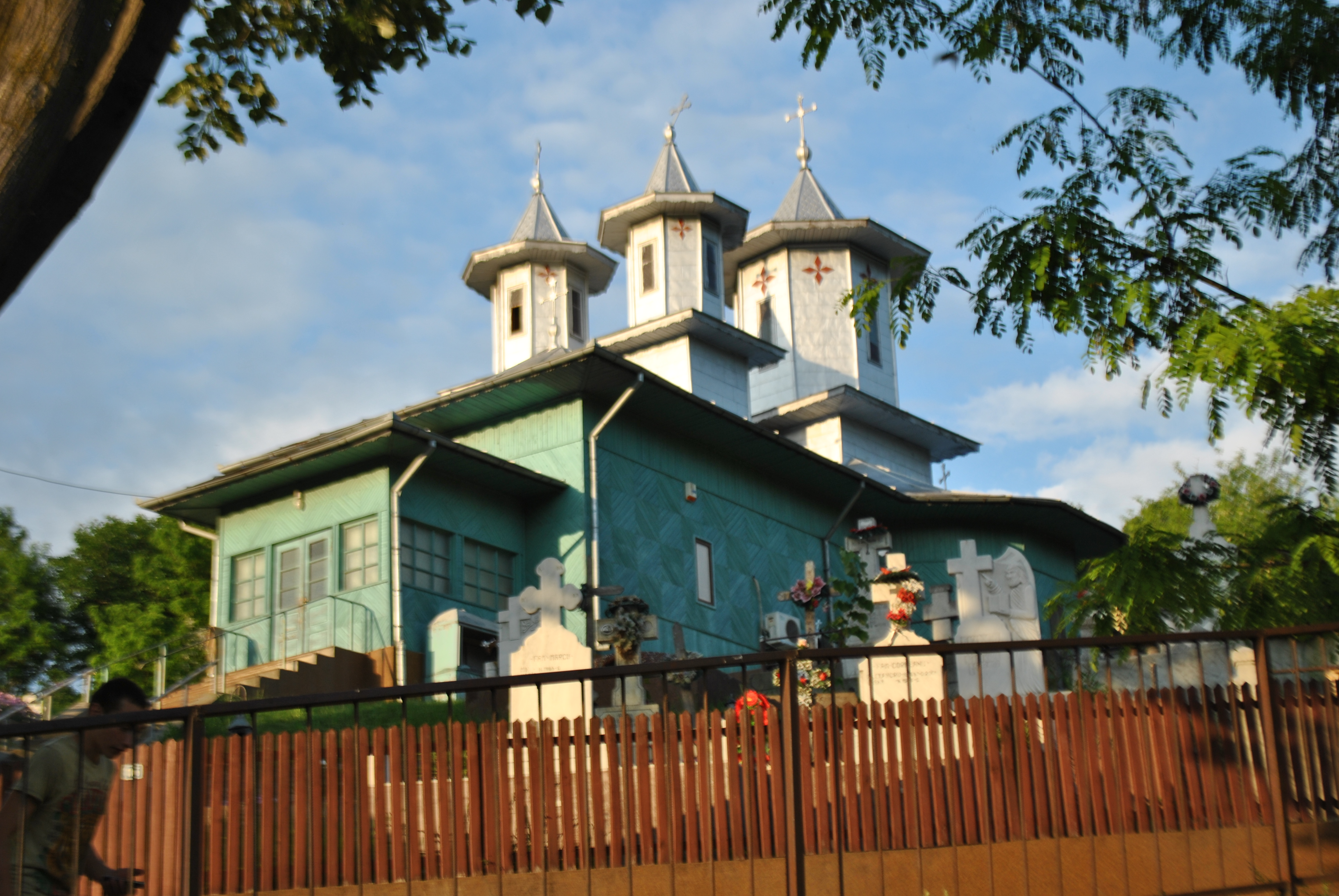 Archangels church in Bălăneşti, Cozieni commune, Buzău County, RomaniaRomână: Biserica „Sfinţii Voievozi” din Bălăneşti, comuna Cozieni, judeţul Buzău, România